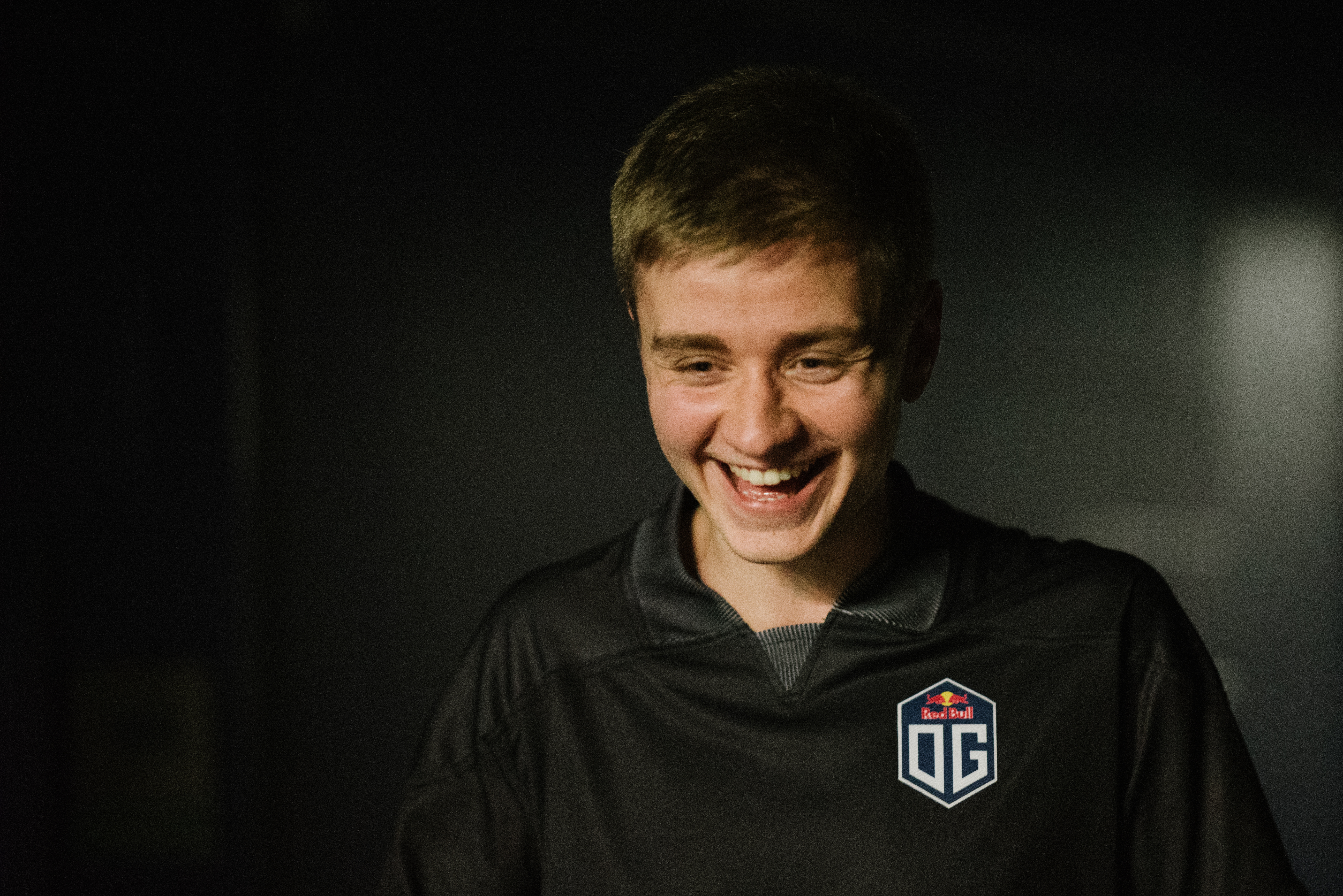 The International 2018